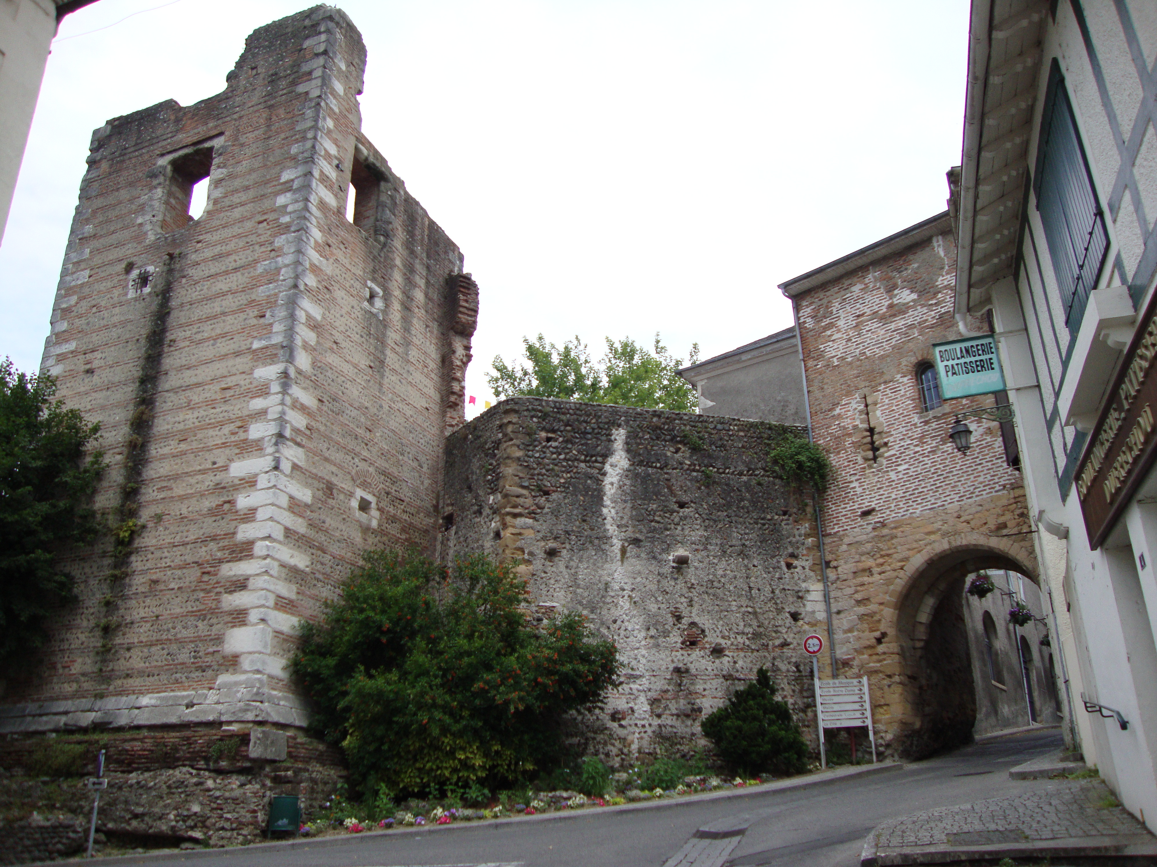 Lescar (Pyr-Atl), Tower and gate of the city walls.